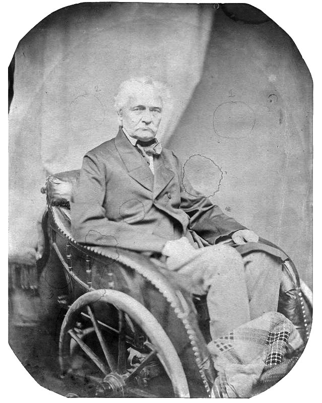 Jan Skrzynecki